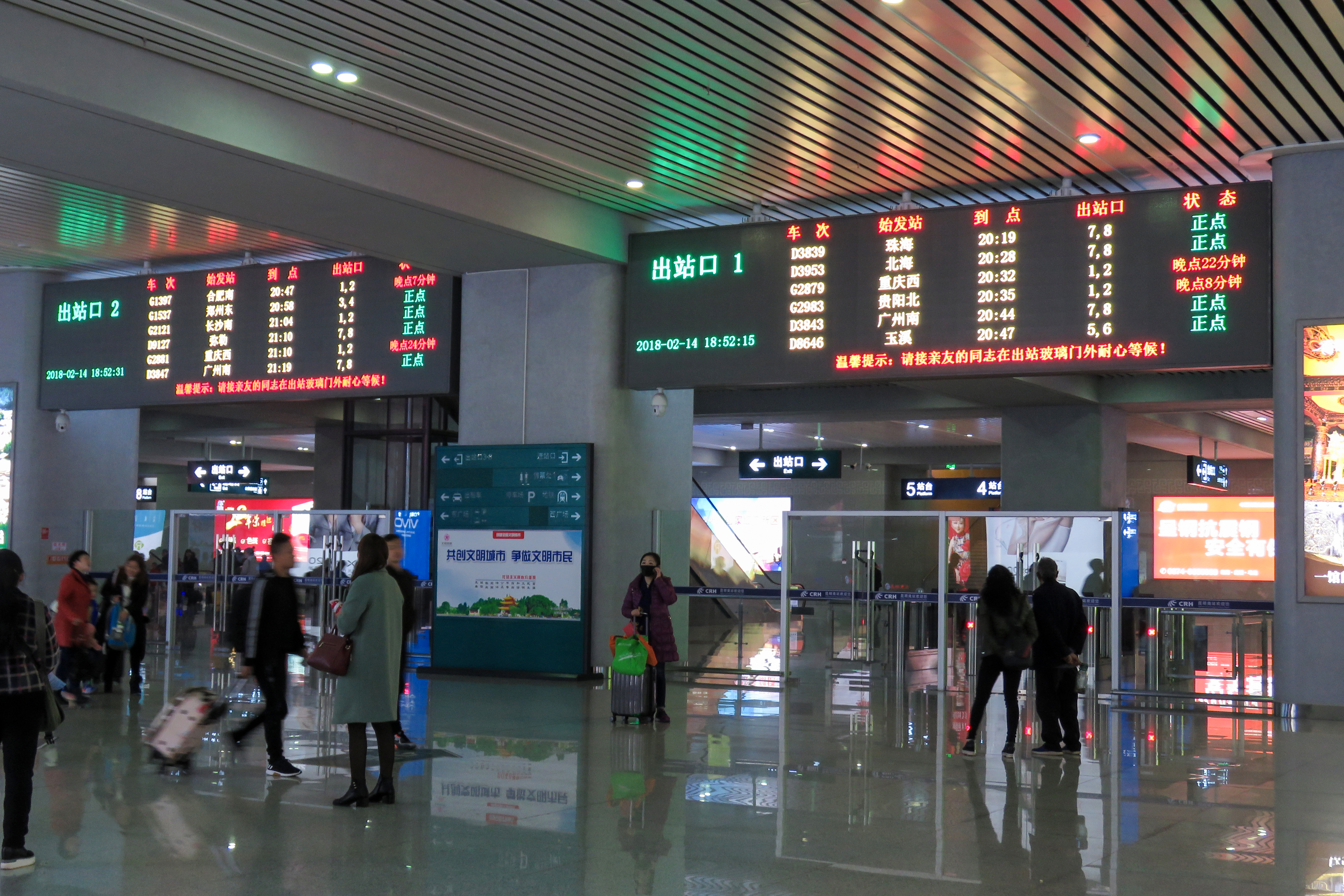 Still just a dip.